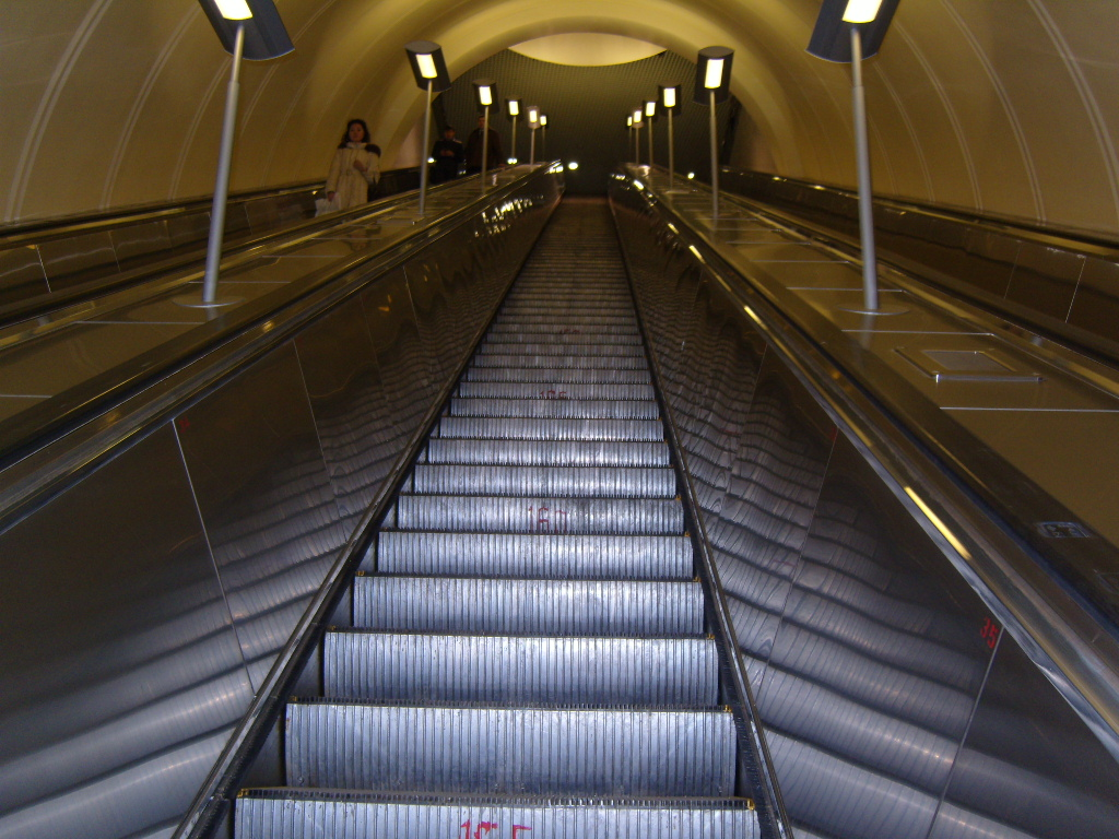 Escalator on the Moscow Metro station "Mezhdunarodnaya"